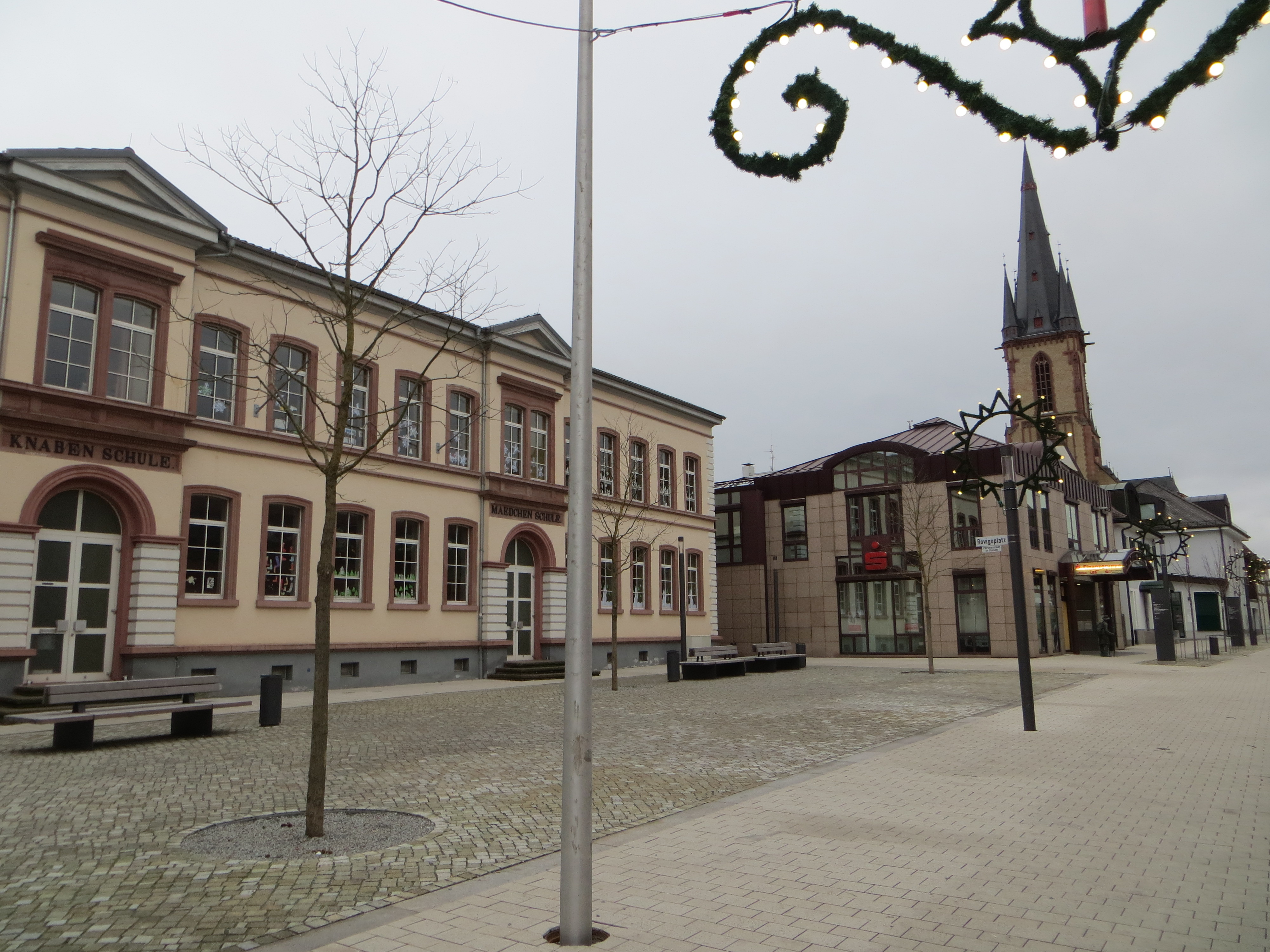 Goethe School and Apostelkirche Viernheim